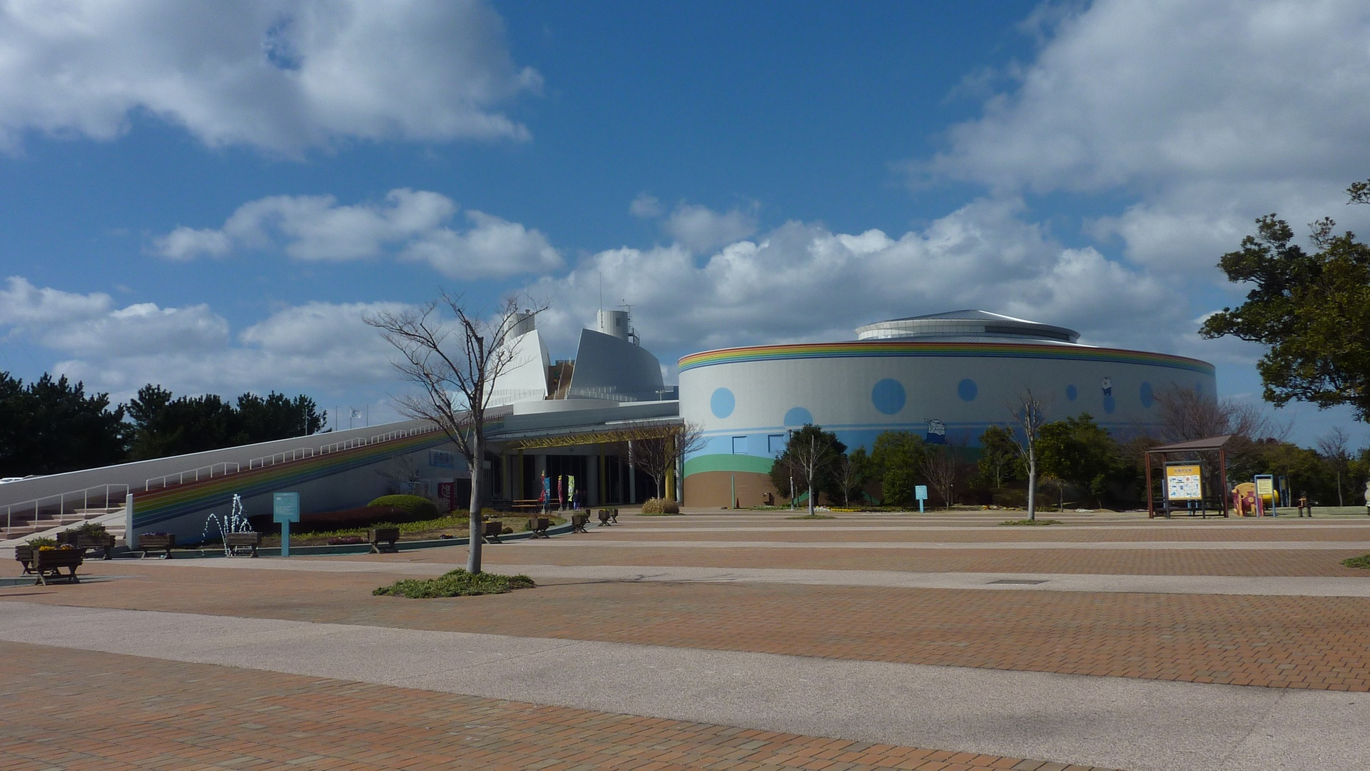 Genkai Energy Park, is a Pavilion of Genkai Nuclear Power Plant in Genkai Town, Saga Prefecture, Japan